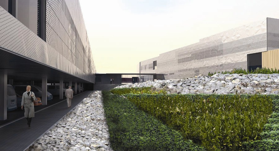 View of the interior court of the Land Port of Entry in Calais, Maine (computer rendering)